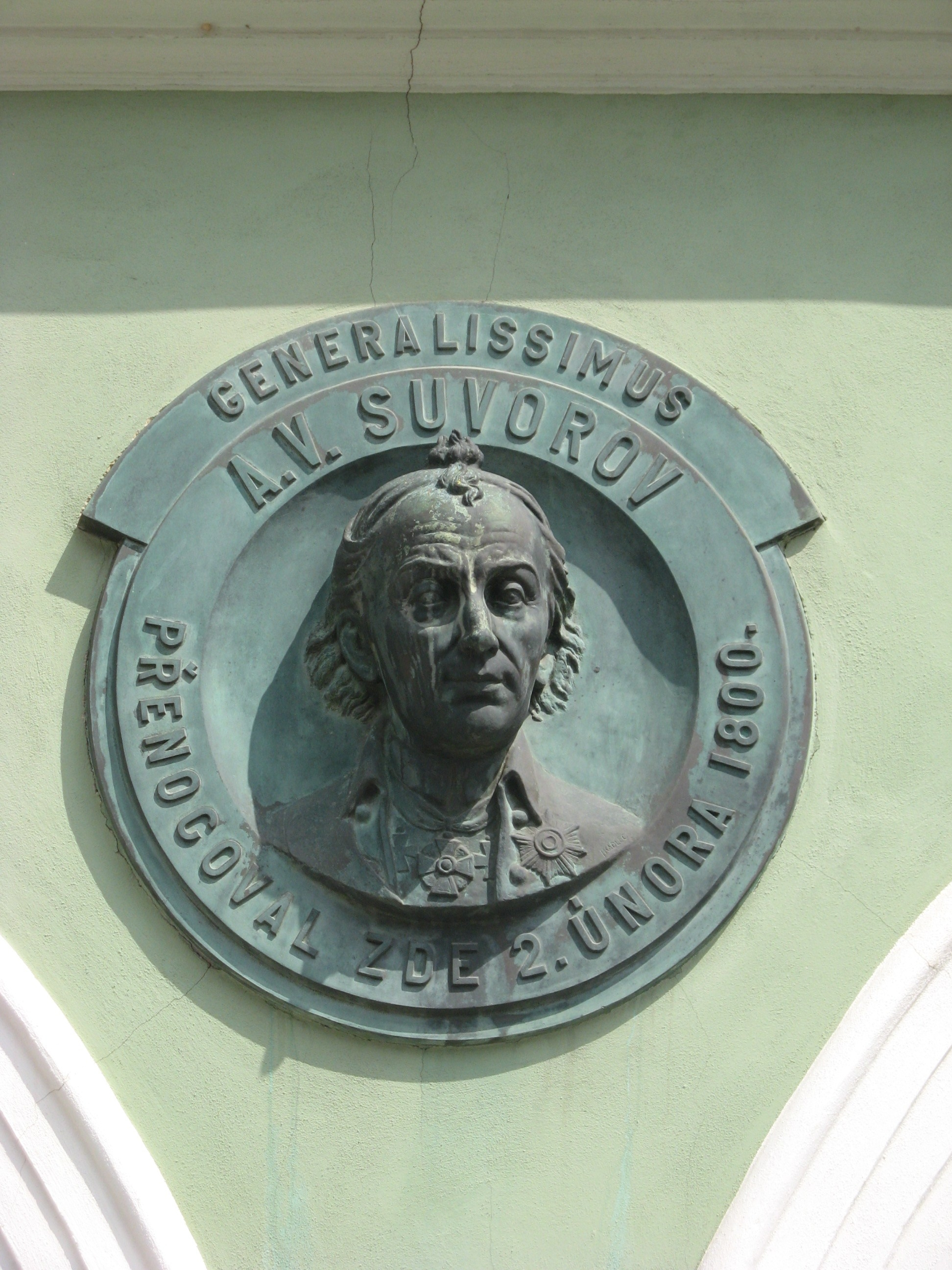 Alexander V. Suvorov, Memorial plaque, Square peace n. 26, Svitavy - Czech republic